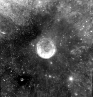 Il'in lunar crater - Clementine image